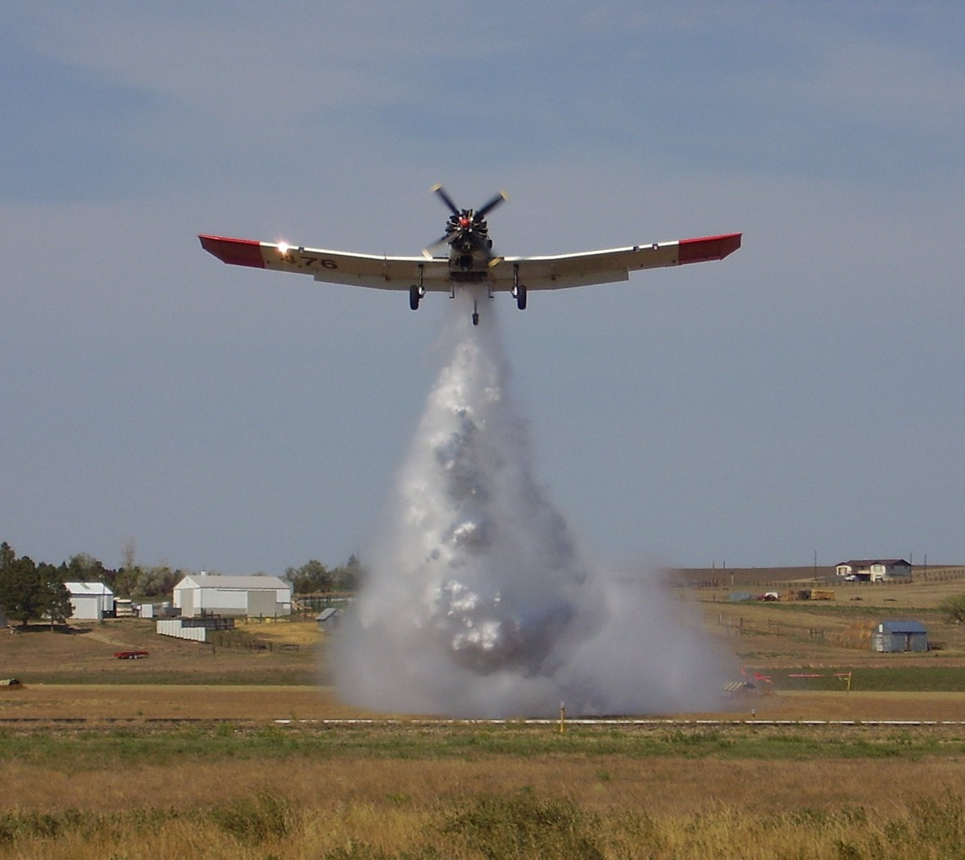 A PZL Dromader dropping water in an exercise at the Mobridge, SD airfield.